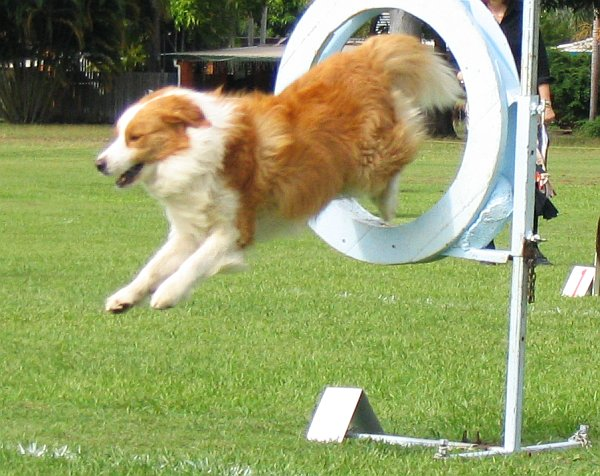 Australian red and white border collie competing in an ANKC agility competition.